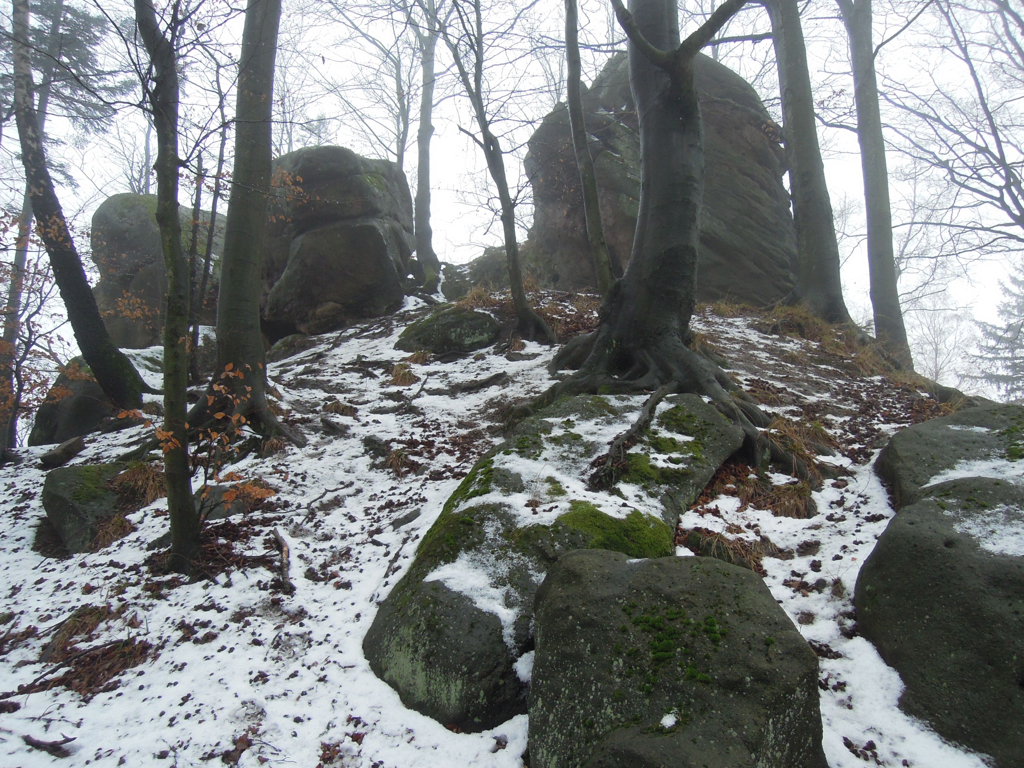 Klenov nature reserve, Vsetín District, Zlín Region, Czech Republic